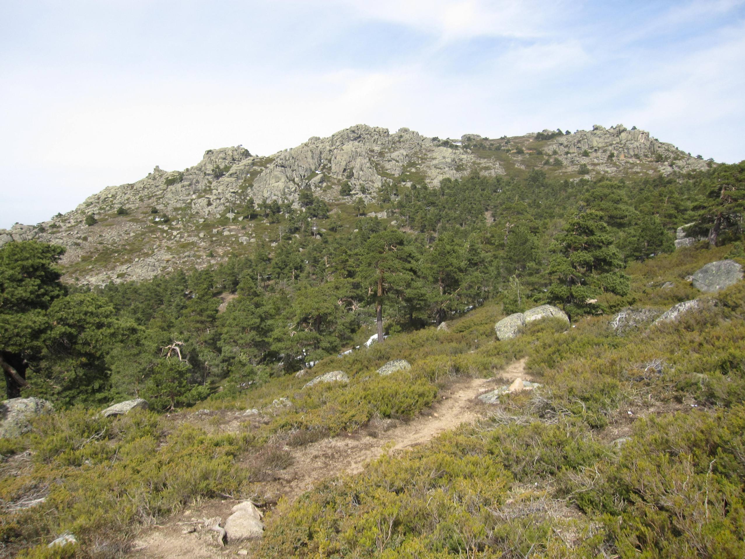 South face of Cueva Valiente (Guadarrama mountain range, Central Spain).